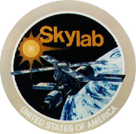 Skylab General Mission-Patch